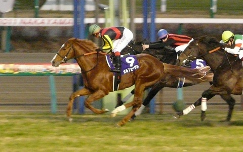 Orfevre at the 2011 Arima Kinen horserace